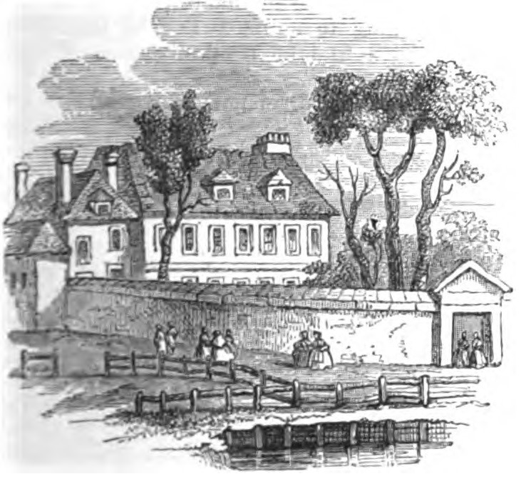 Saler's Wells, 1745 (Robert Chambers, p.73, 1832)